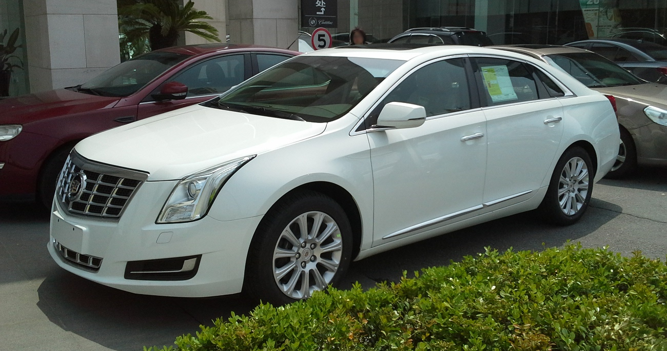 Cadillac XTS photographed in Shanghai, China.